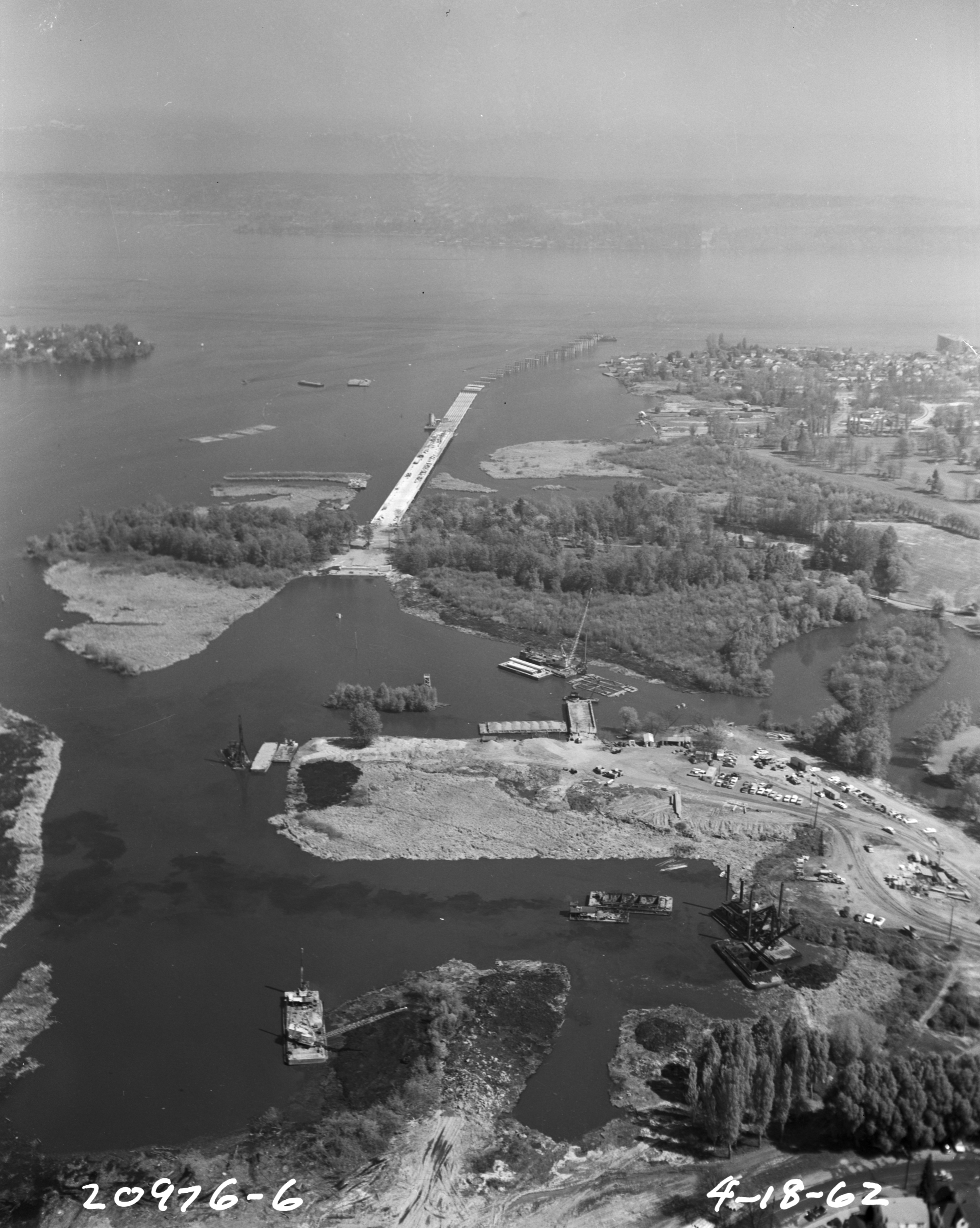 Evergreen Point Bridge (part of Washington SR-520) under construction in Seattle, Washington, 1962. The bridge is shown here extending into Lake Washington as a causeway east from Foster Island in the Washington Park Arboretum. The land at right is part of the Madison Park neighborhood, including Broadmoor.